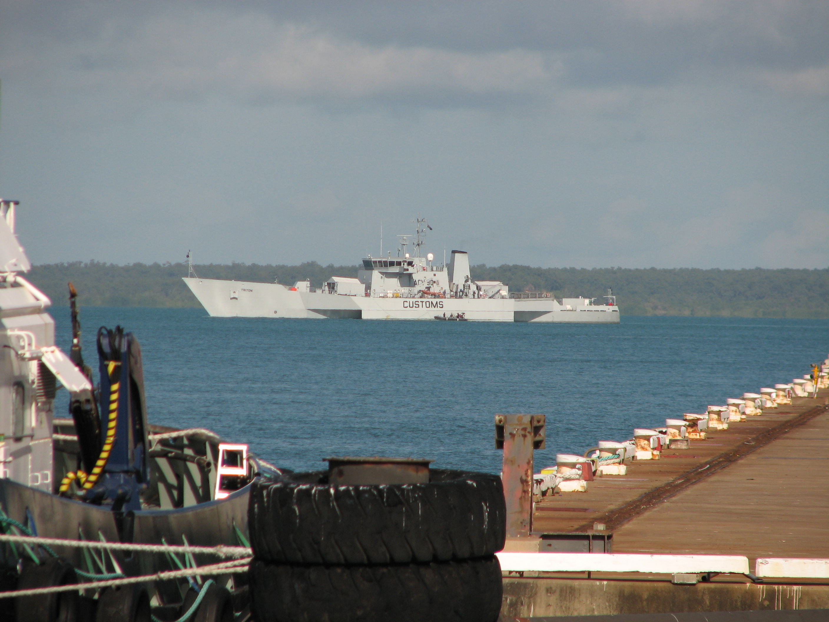 The customs ship Triton moored in mid Darwin Harbour in May 2007.